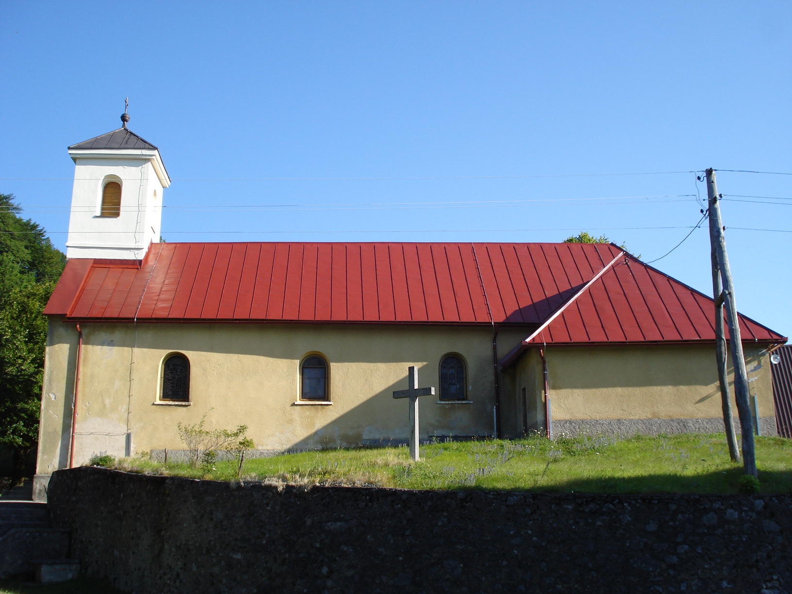 Church of the Holy Trinity in Modruš, Karlovac County, Croatia